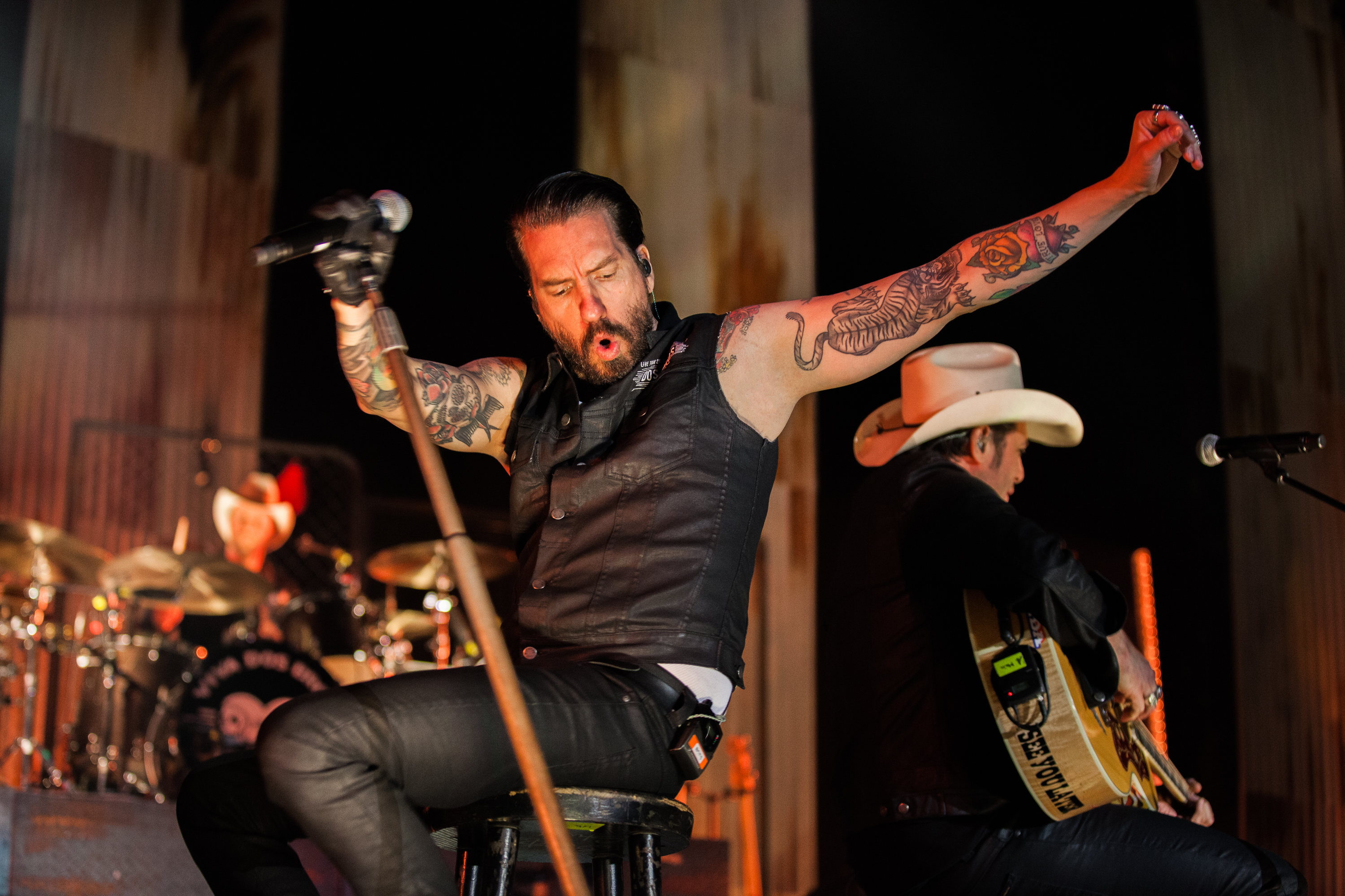 The BossHoss at Arena Show in Koenig Pilsener Arena, Oberhausen, Germany